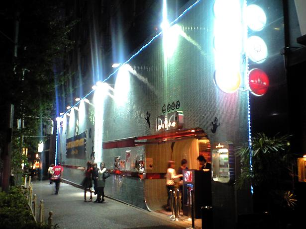 Tokyo night club NISHIAZABU alife